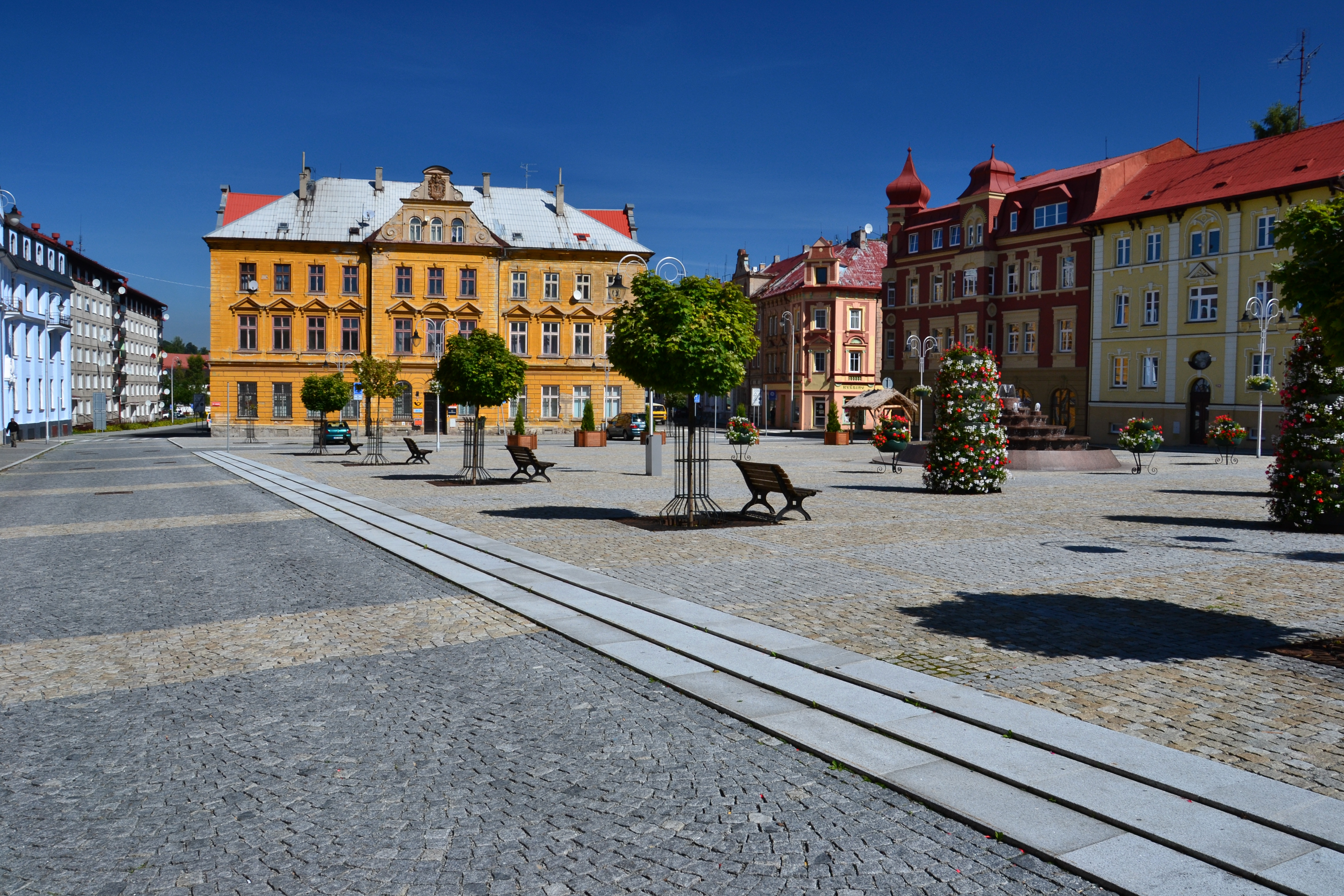 Vejprty, Chomutov District, Czechia. T. G. Masaryk Square with the post office.